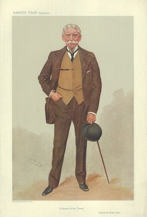 Caricature of General Sir George Luck